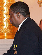 ALEXANDER HALL, GRAND KREMLIN PALACE. Ambassador of the Republic of Zimbabwe Pelekezela Mpoko presents his letter of credentials.